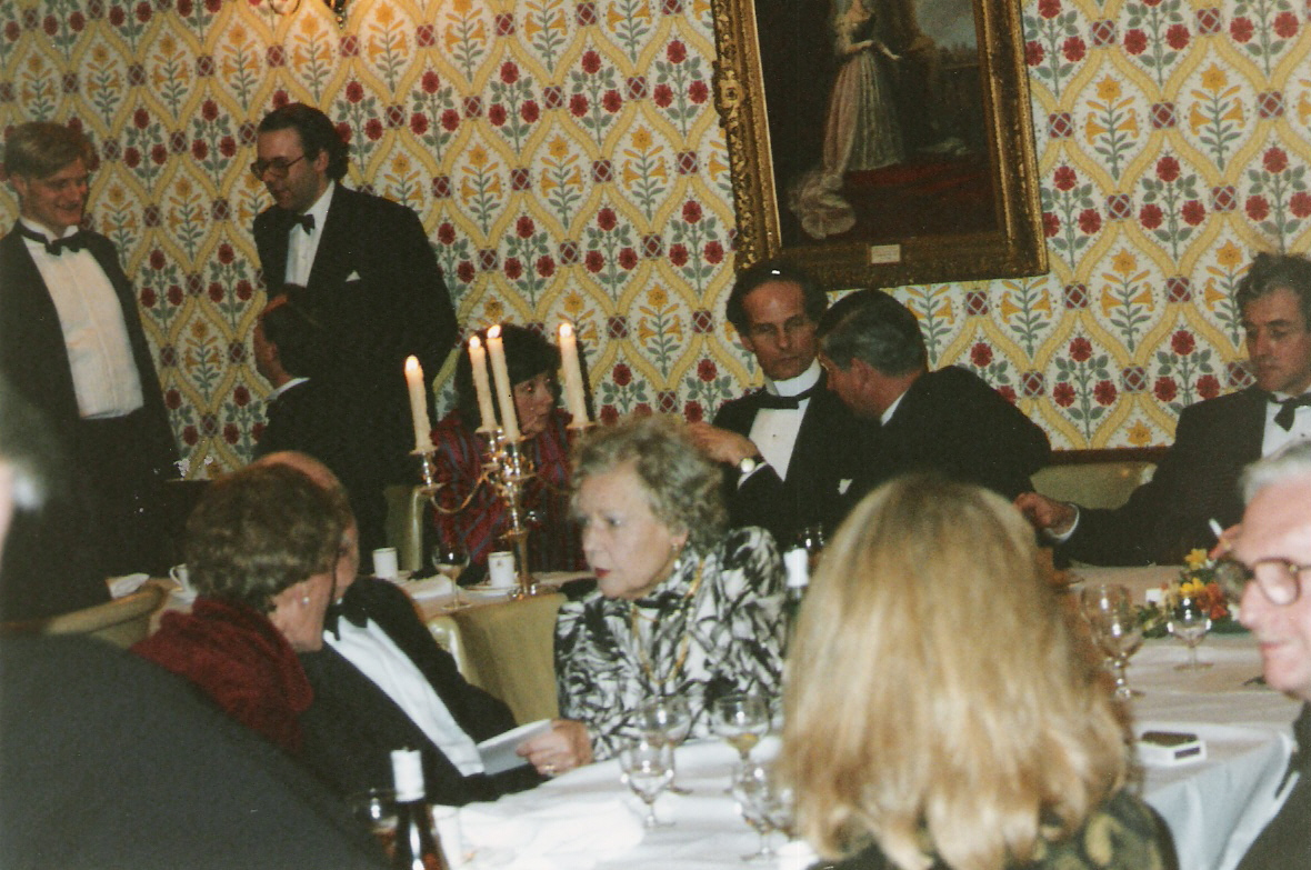 A photograph of various members of the Monarchist League; Lord Nicholas Hervey, Nikolai Tolstoy and Merlin Sudeley at the Oxford & Cambridge Club, 12th March 1990.